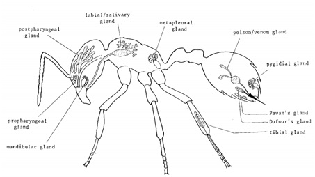 Fig. 1. Ubicación de algunas de las glándulas exocrinas en las hormigas.